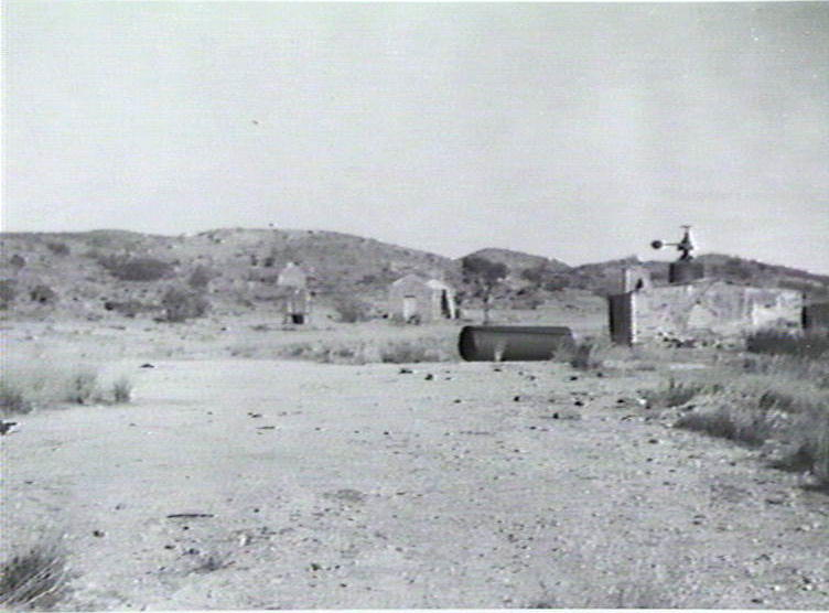 Arltunga Historical Reserve, PH0240/0007